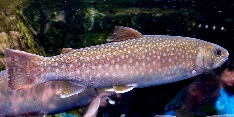 Nikkou char , Salvelinus leucomaenis pluvius . at Kyoto Aquarium, Japan.